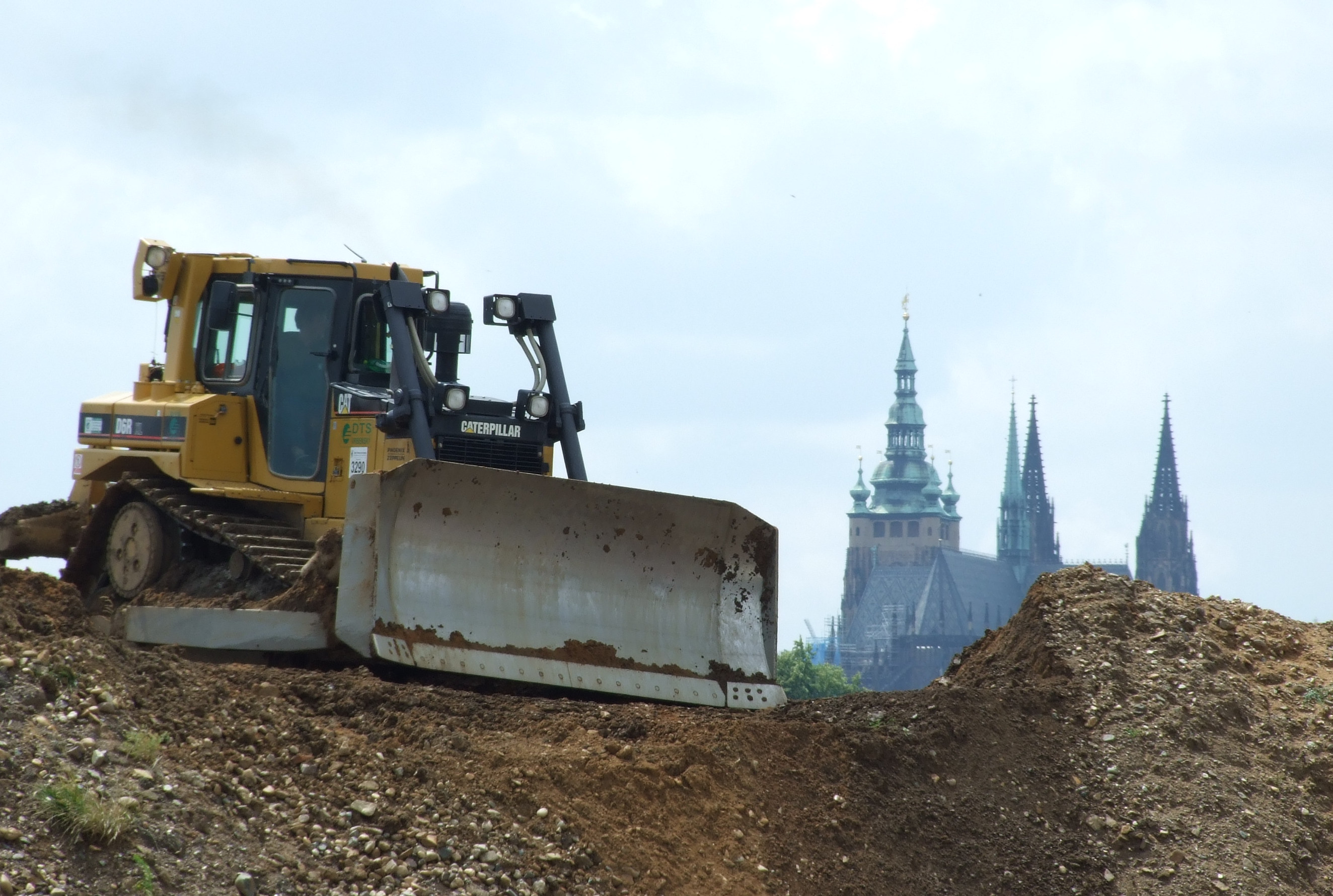 Sand and dirt from Blanka tunnel construction site is located next to the future tunnelhelp